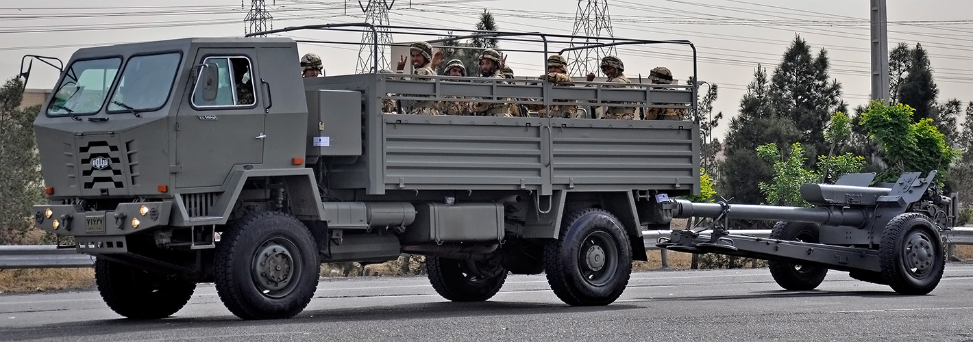 Neynava truck carrying troops and towing an HM-40/D-30